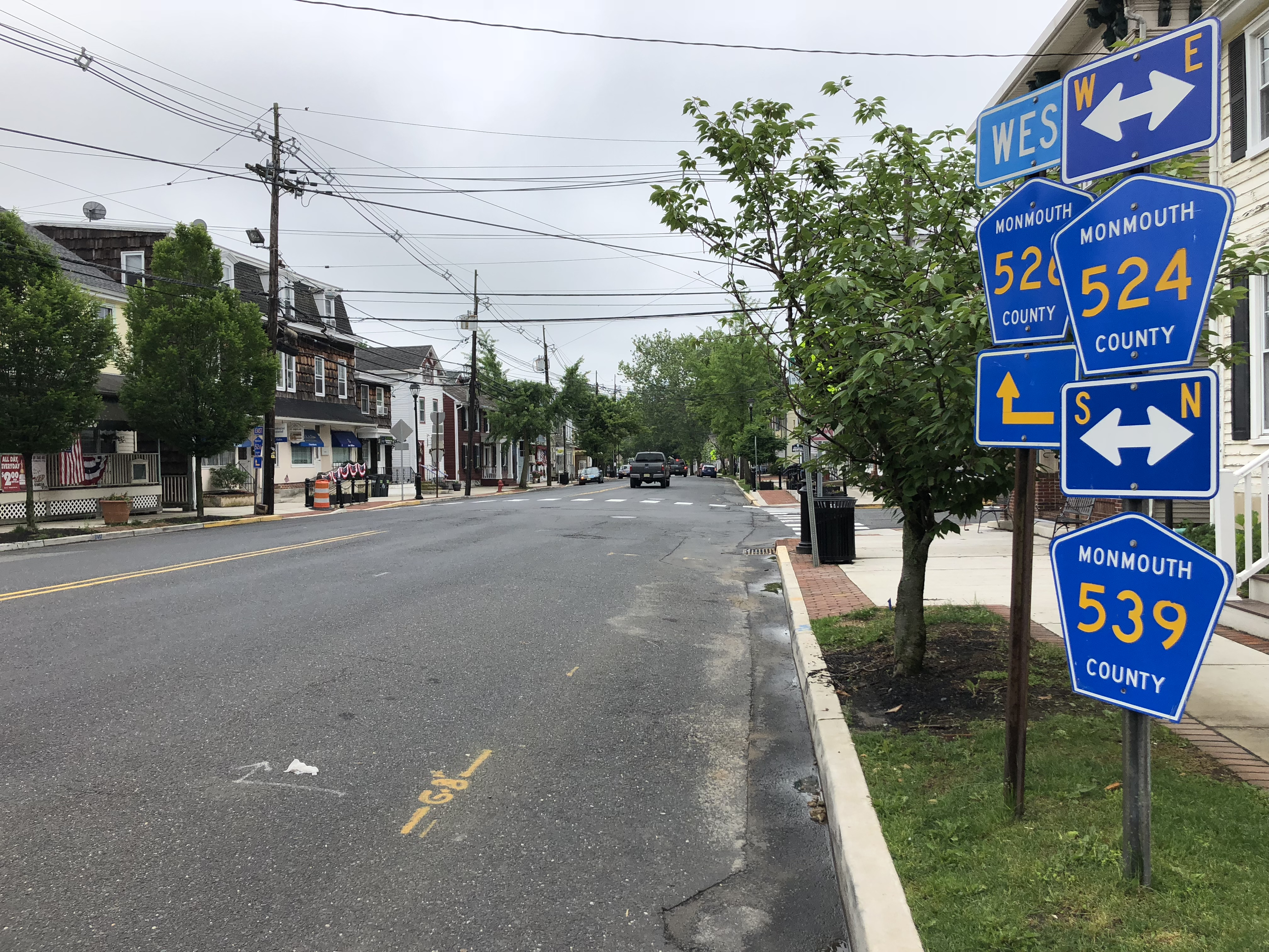 View west along Monmouth County Route 524 and Monmouth County Route 526 and south along Monmouth County Route 539 (Main Street) at Waker Avenue in Allentown, Monmouth County, New Jersey